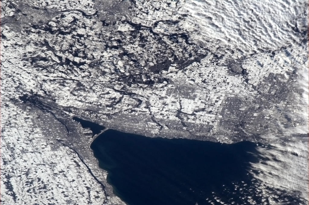 Satellite picture of Canada